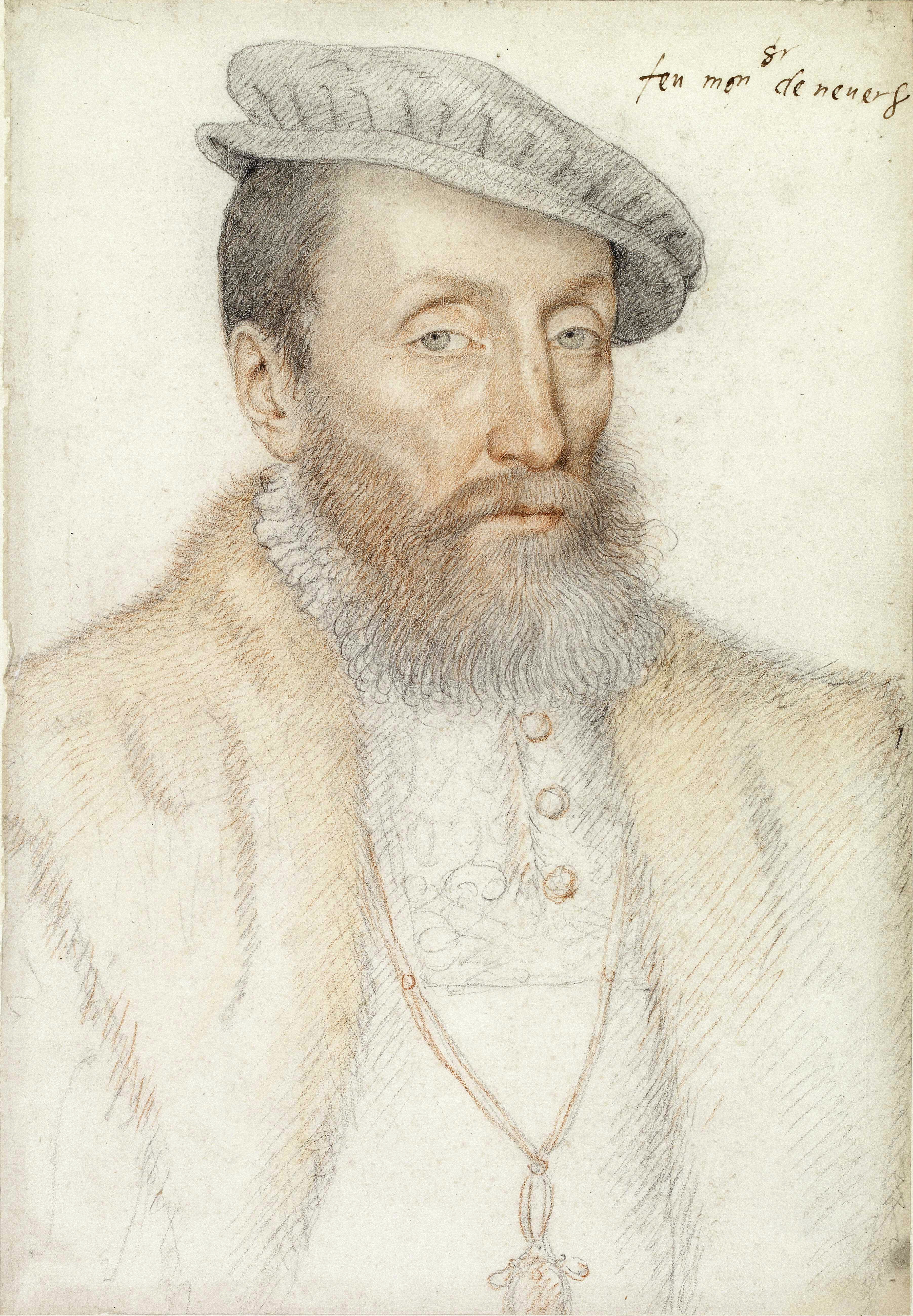 Portrait of Francis I of Cleves, duke of Nevers